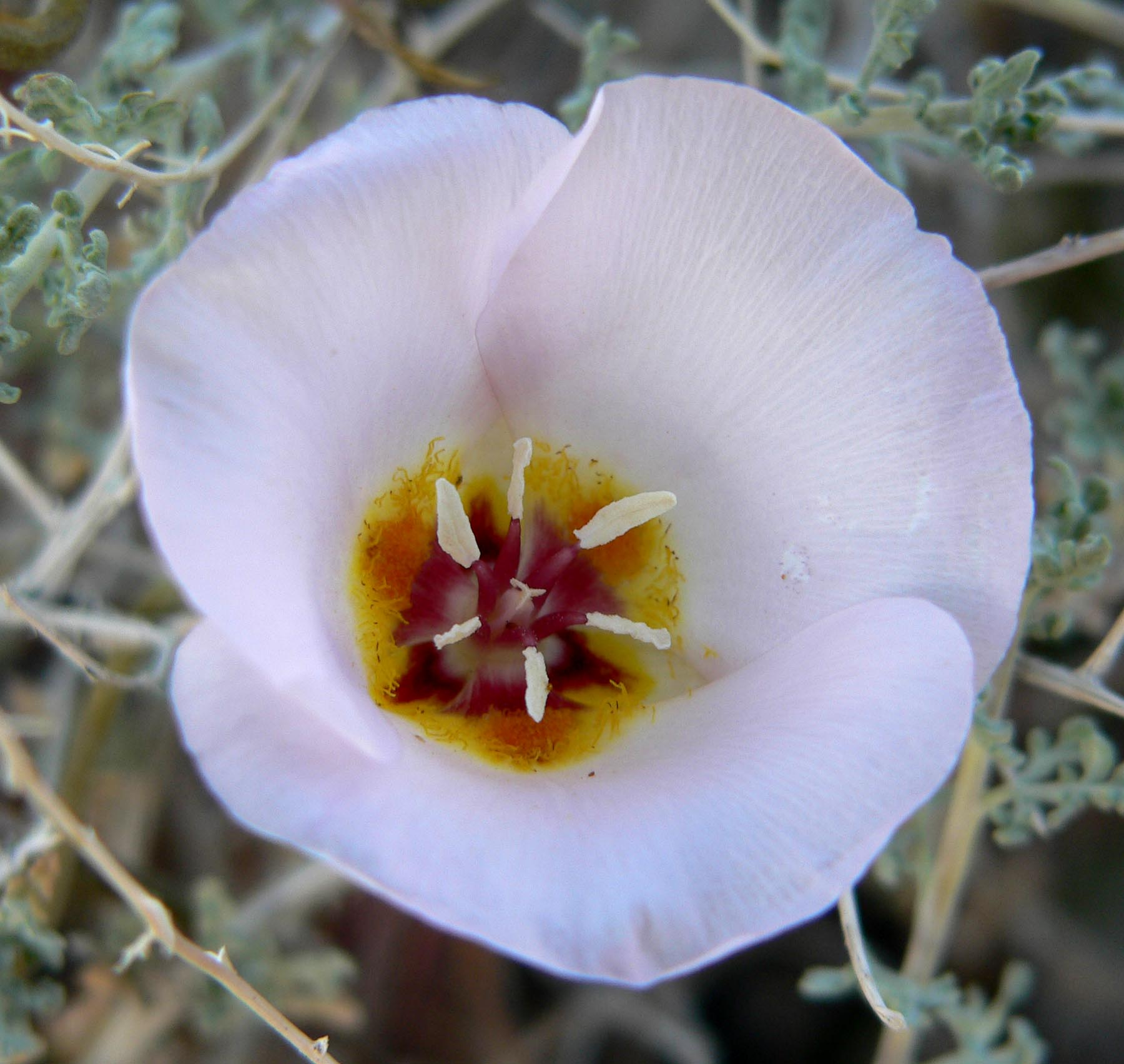 Photo of Calochortus flexuosus (weak-stemmed mariposa lily) just outside Red Rock Canyon, Nevada